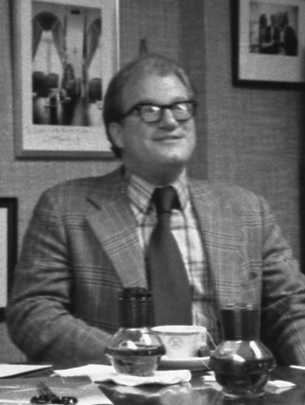 White House Photographer David Hume Kennerly (left) meeting with photographer Ansel Adams (right) and William Turnage (center) in the White House Photographic Office